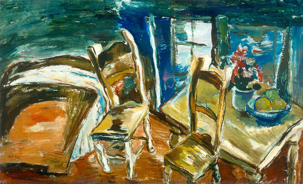 Wolf Kibel, Interior, undated, oil on canvas, 310 x 670 mm